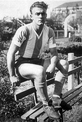 Alfredo Di Stefano in Argentina national team